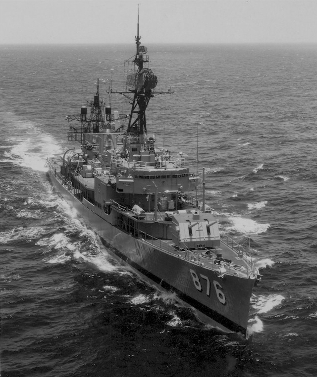 The U.S. Navy destroyer USS Rogers (DD-876) in the South China Sea in 1973.